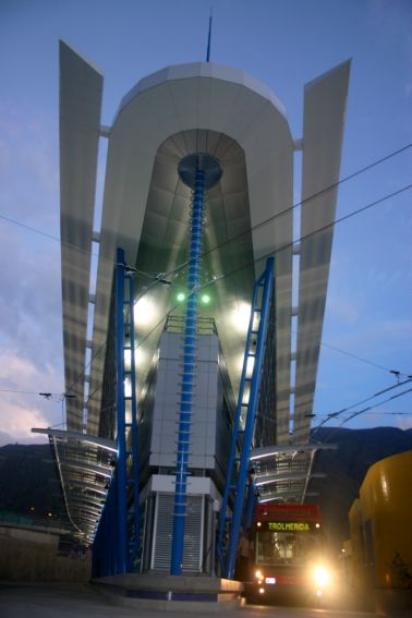 A trolleybus at "Terminal Ejido", the western terminus of the Mérida trolleybus system